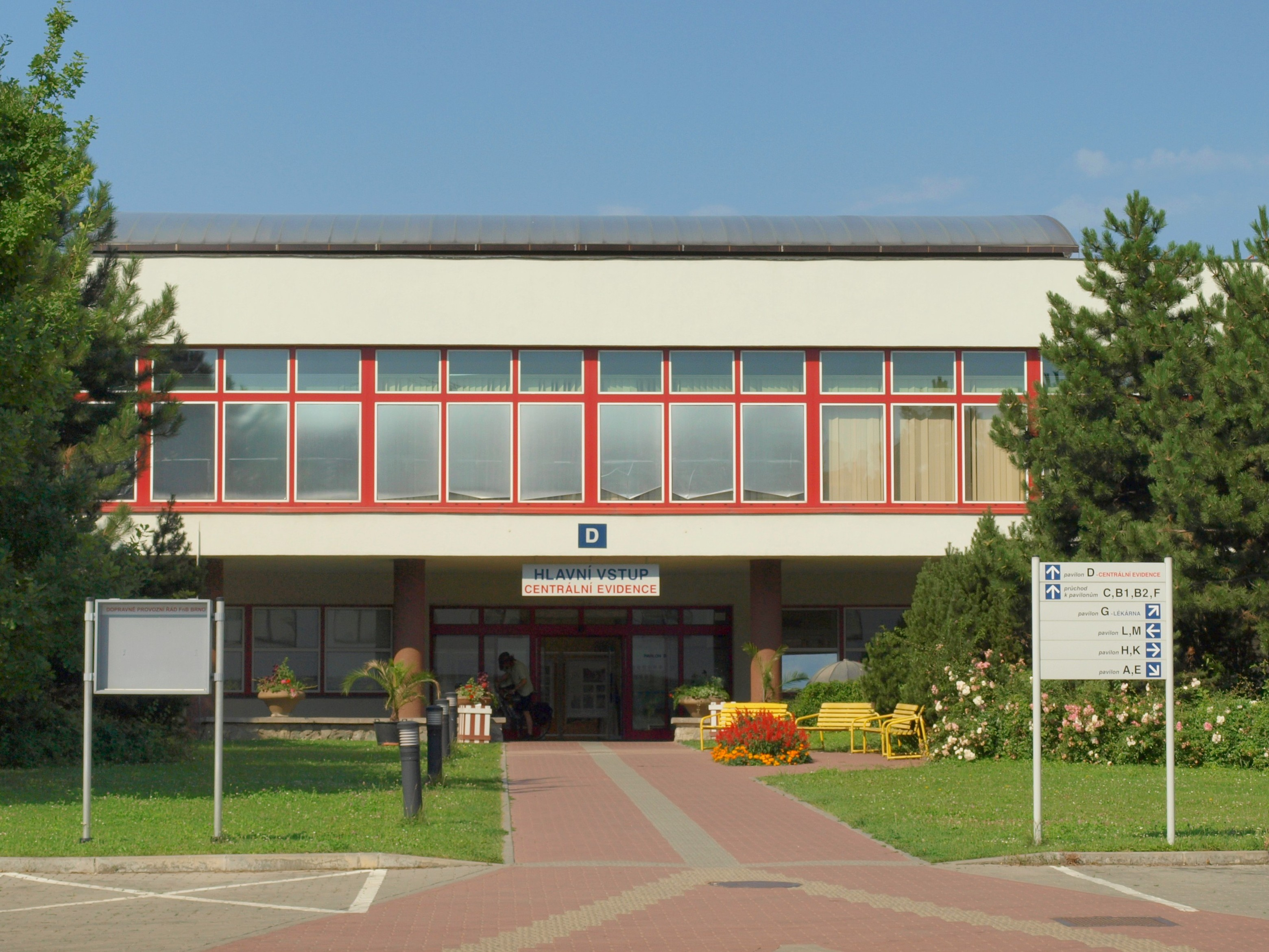 Children hospital, Černopolní street, Brno